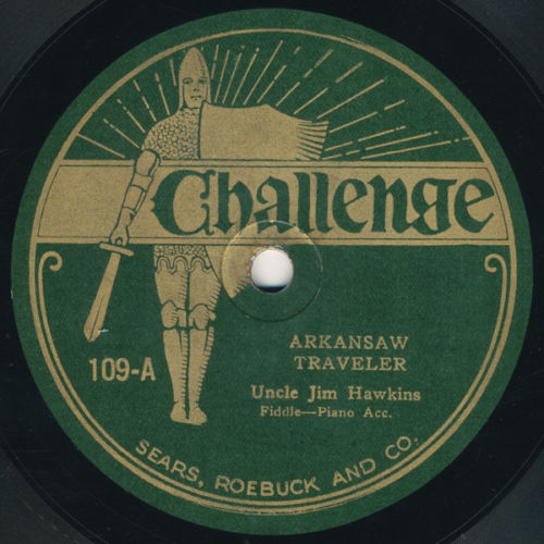 Arkansaw Traveler by Uncle Jim Hawkins (William B. Houchens), Challenge 1922.